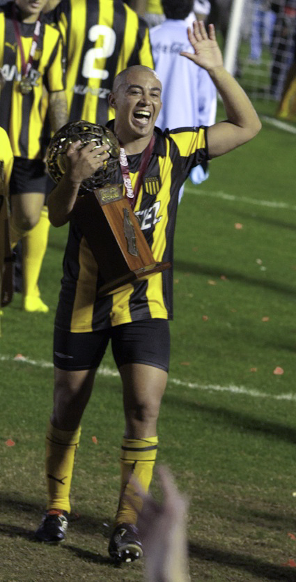 Egidio Arevalo Rios as player of Uruguayan team CA Peñarol holding the Coca-Cola-sponsorship-cup of the season 2009/2010. Coca Cola is the lead sponsor of the Liga Profesional de Primera División. It is not the official championship cup, but is awarded to the winner together with it.